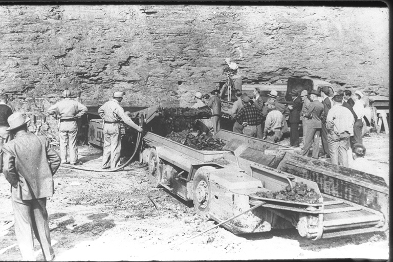 Continuous miners machine mining belt — used for Coal mining in the United States.